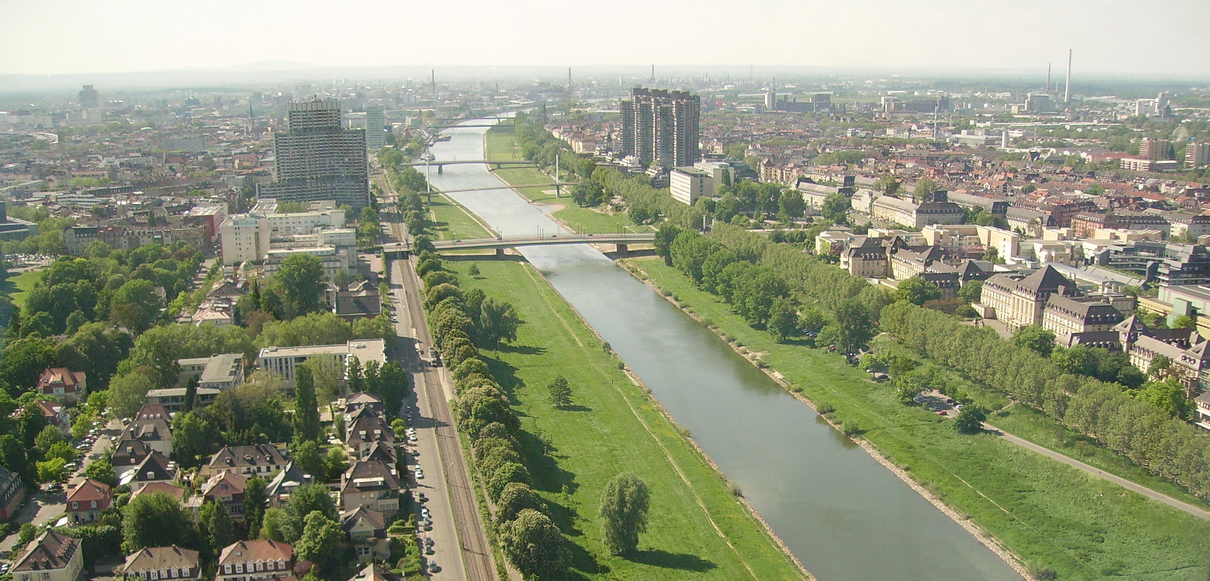 Fernmeldeturm Mannheim